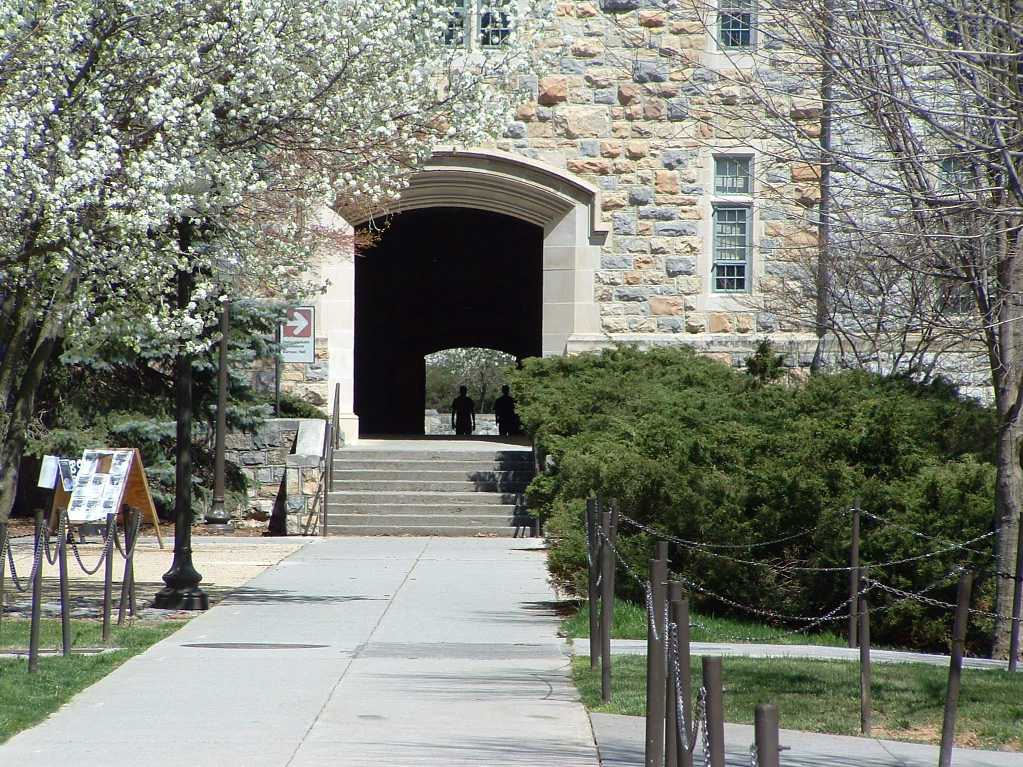 The tunnel through the side fo Virginia Tech's Burruss Hall taken from the west side